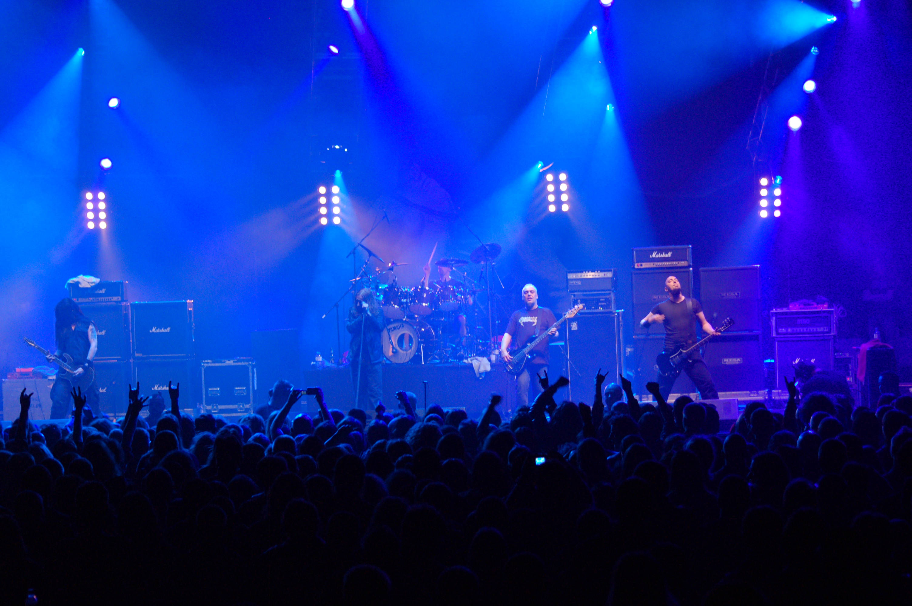 Metal band Paradise Lost during Metalmania 2007 festival